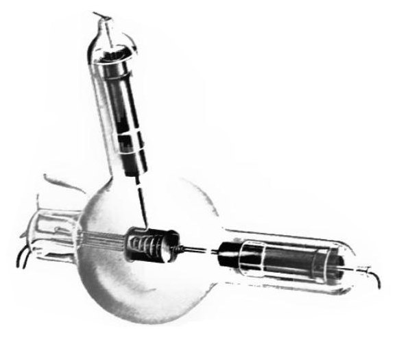 The dynatron tube invented by Albert W. Hull in 1918, a special purpose vacuum tube with negative resistance due to a phenomenon called secondary emission. It was the first vacuum tube that had negative resistance. It had some limited use as an oscillator in the 1920s, but did not prove practical. The dynatron consisted of an evacuated glass envelope with three electrodes, organized something like a triode. Between the heated filament and cylindrical plate electrodes there is a perforated screen similar to a grid, called the anode. Unlike in an ordinary triode, the anode is operated at a higher voltage than the plate. Electrons released by the hot filament due to thermionic emission are attracted to the positively charged plate and strike it. Due to their velocity they knock electrons out of the plate, called secondary electrons. Since the anode is at a higher potential than the plate, the secondary electrons are attracted to it. This represents a current away from the plate, reducing the net plate current. As the voltage on the plate is increased, more secondary electrons are produced, so the plate current decreases. This is called negative differential resistance. If a tuned circuit is connected between the plate and filament, the negative resistance of the tube will cancel the positive resistance of the tuned circuit, resulting in a circuit with zero AC resistance. Spontaneous oscillations will be excited in the tuned circuit, at its resonant frequency